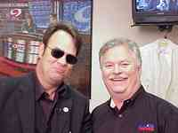 Entertainer Dan Aykroyd With Phil Konstantin